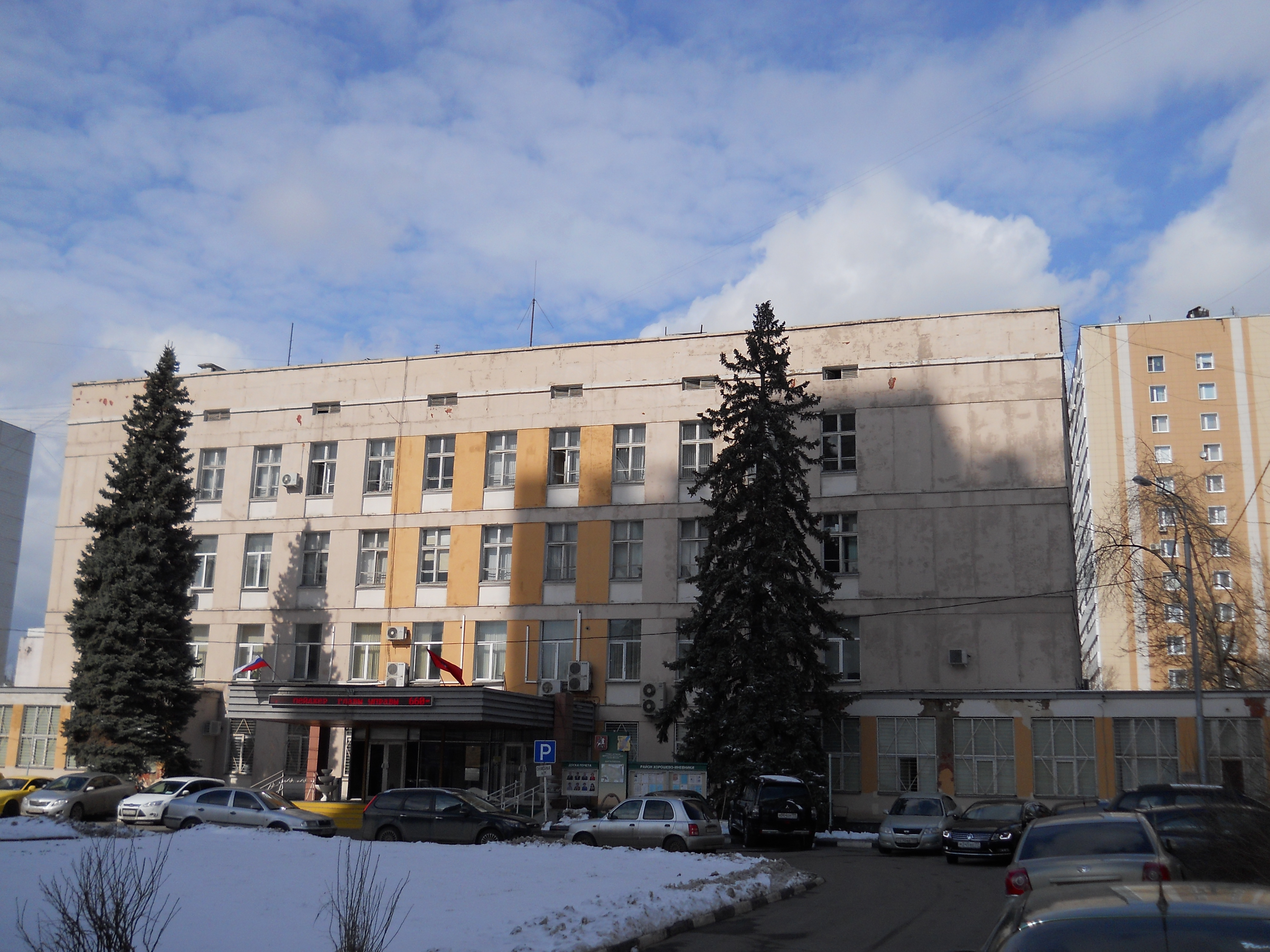 Narodnogo Opolcheniya Street 33, k. 1, Moscow. Municipal building of Khoroshevo-Mnevniki district.